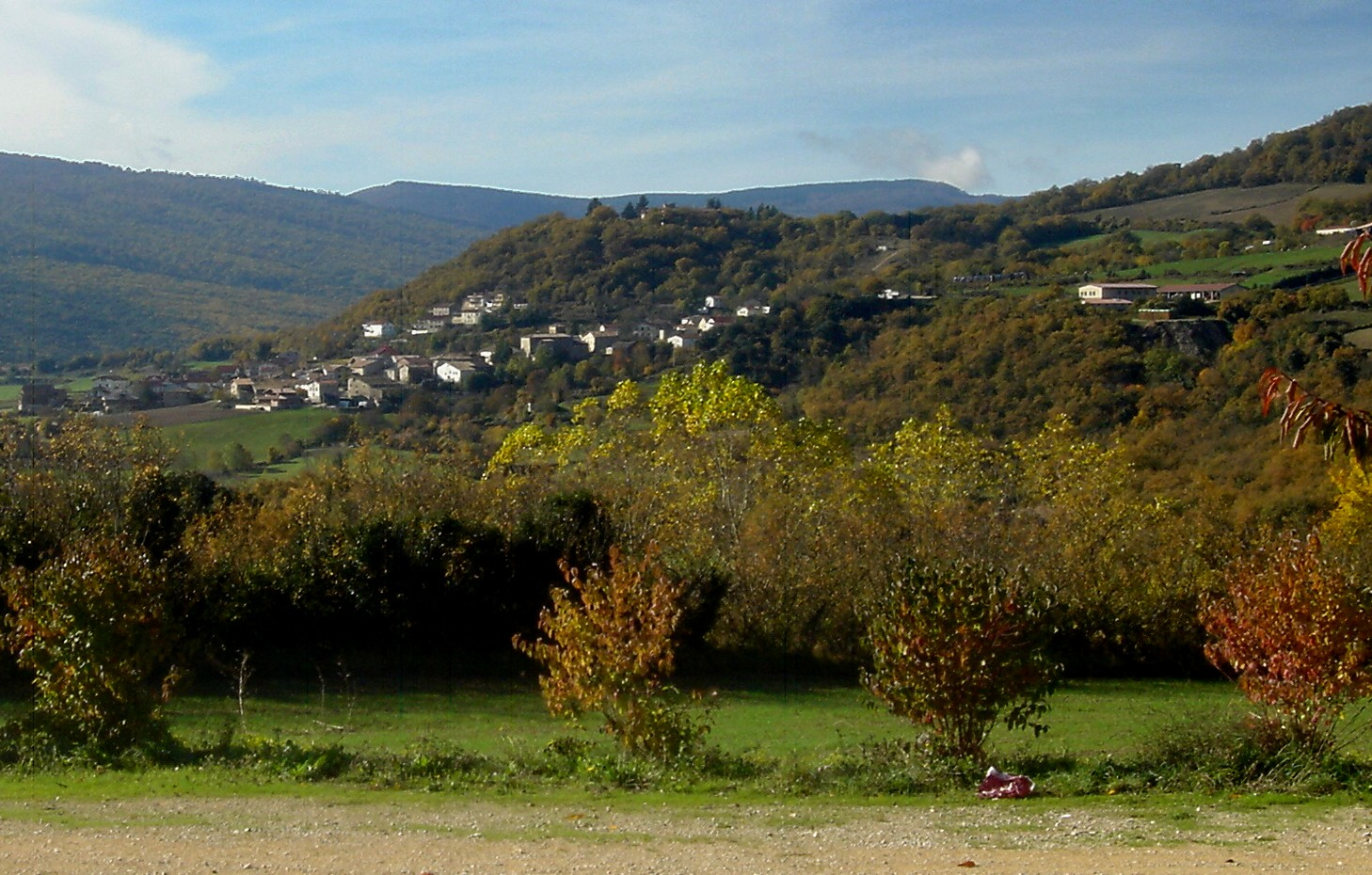 Zudaire (Ameskoabarren, Navarre, Spain)